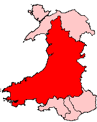 based on map made by Keith Edkins